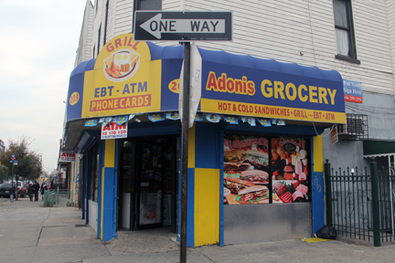 Site of collection of some samples used in Heather Dewey-Hagborg's Stranger Visions